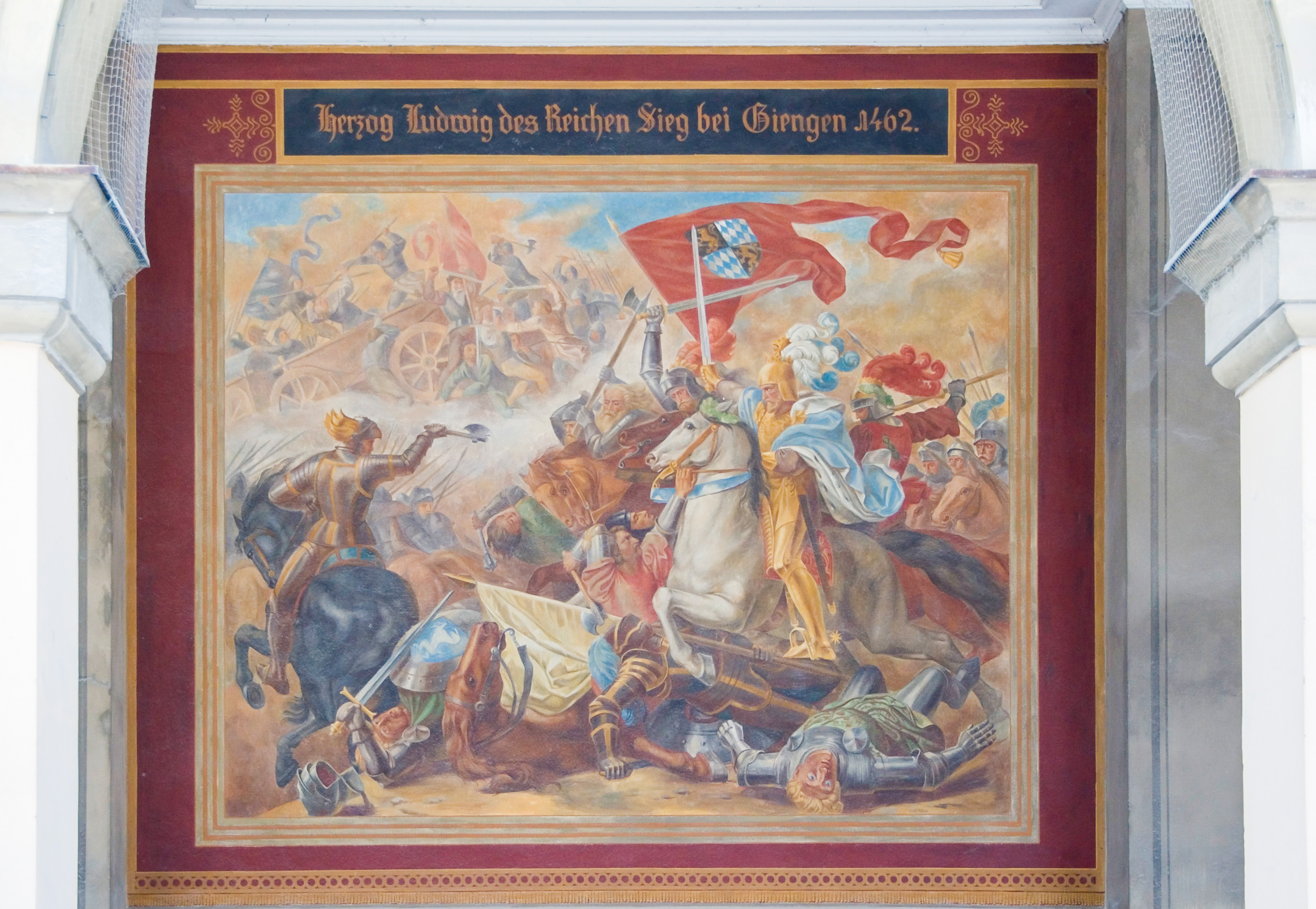 Paintings on bavarian history in Hofgarten, Munich, Germany